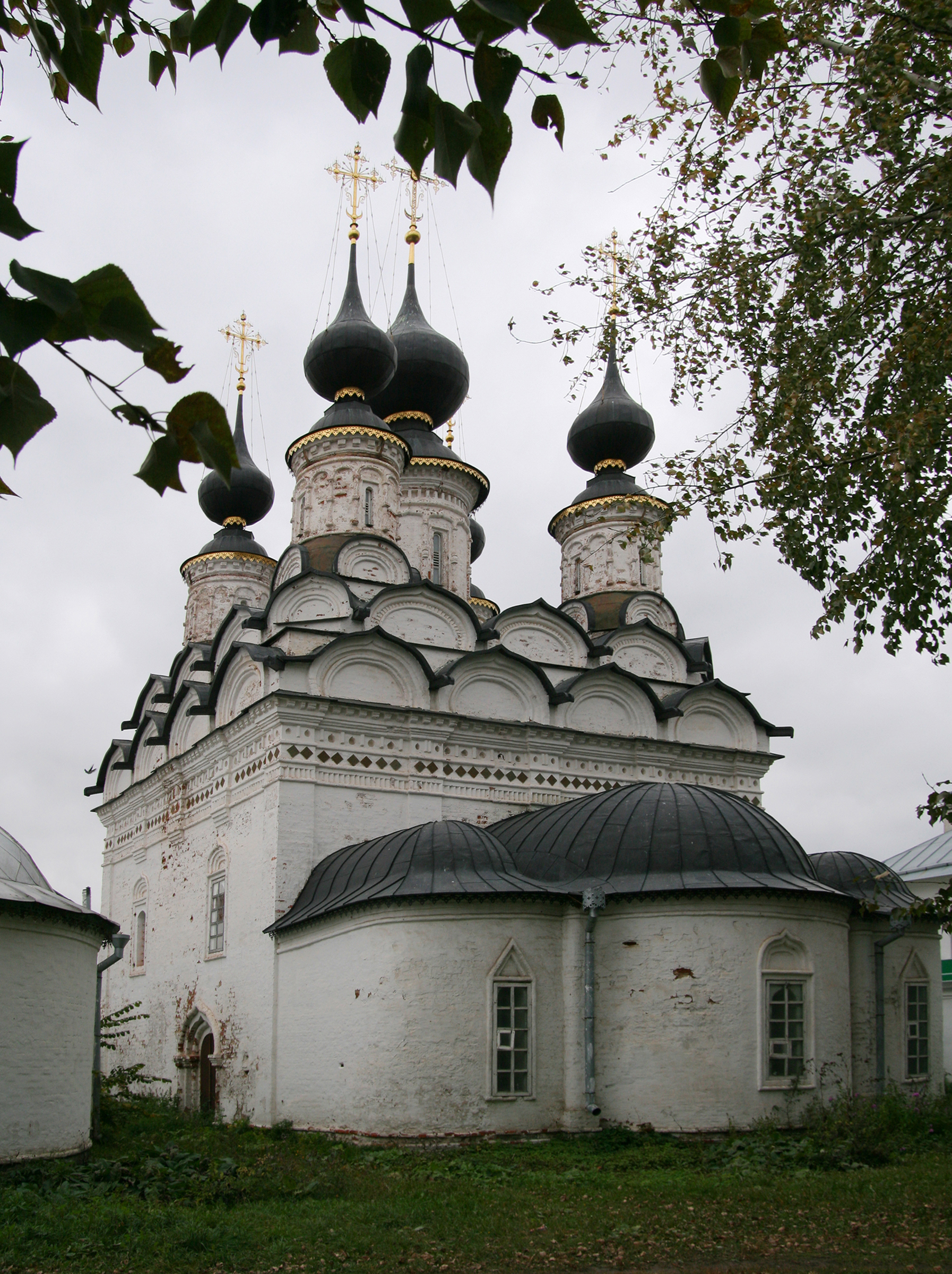 Saint Lazarus Church (1667) , Suzdal, Russia